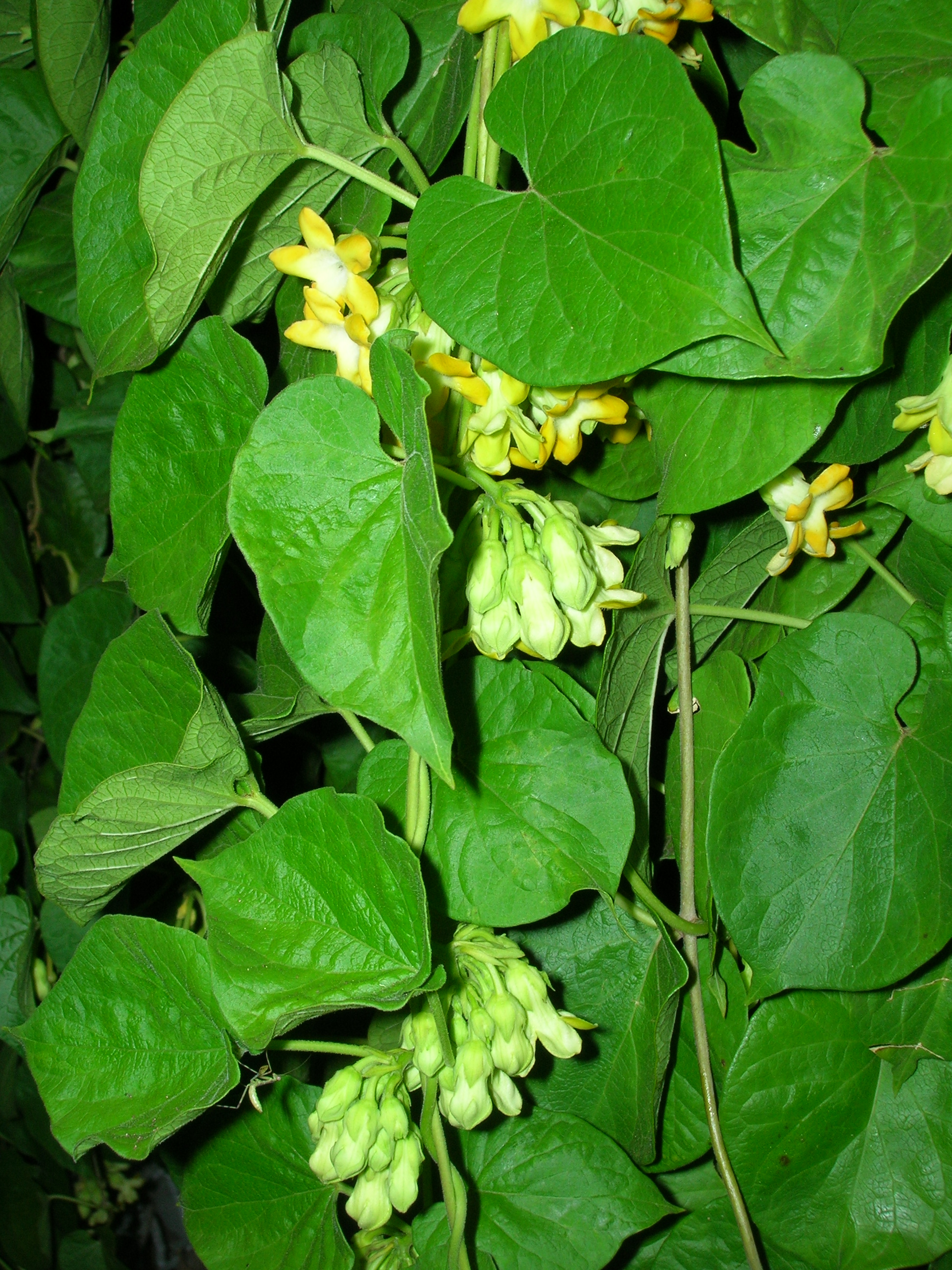 Telosma cordata (leaves and flowers). Location: Maui, HDOA Kahului